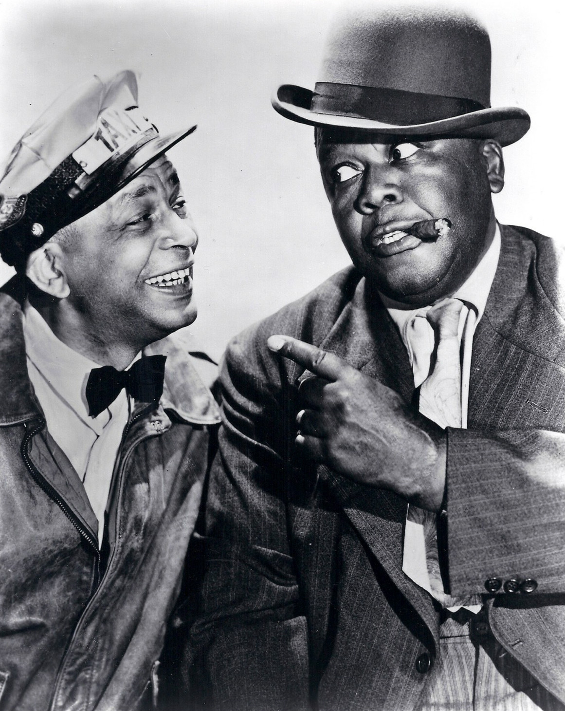 Photo of Alvin Childress as Amos and Spencer Williams as Andy from the television program Amos 'n' Andy.